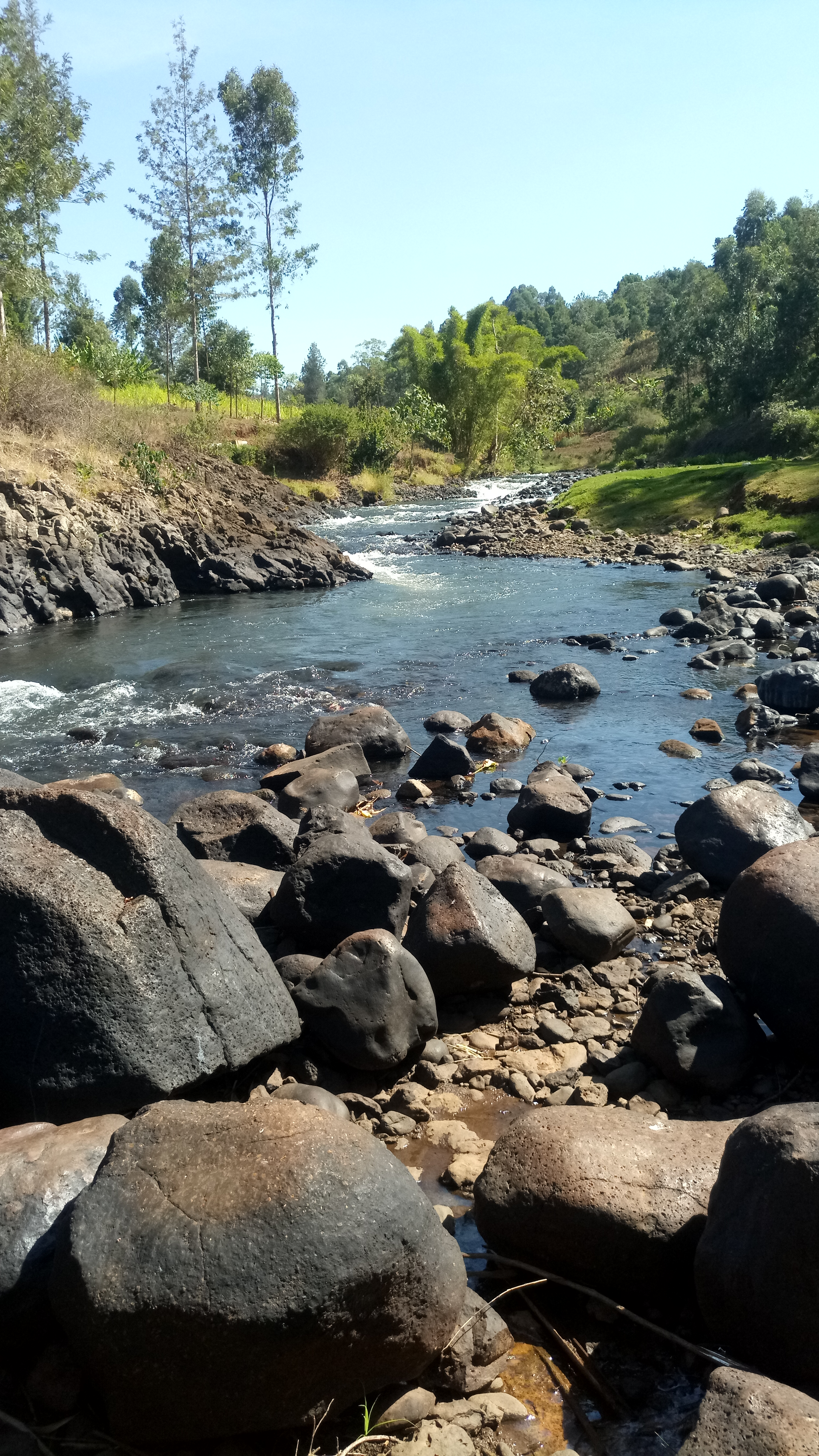 This is an image with the theme "Play" from: Kenya